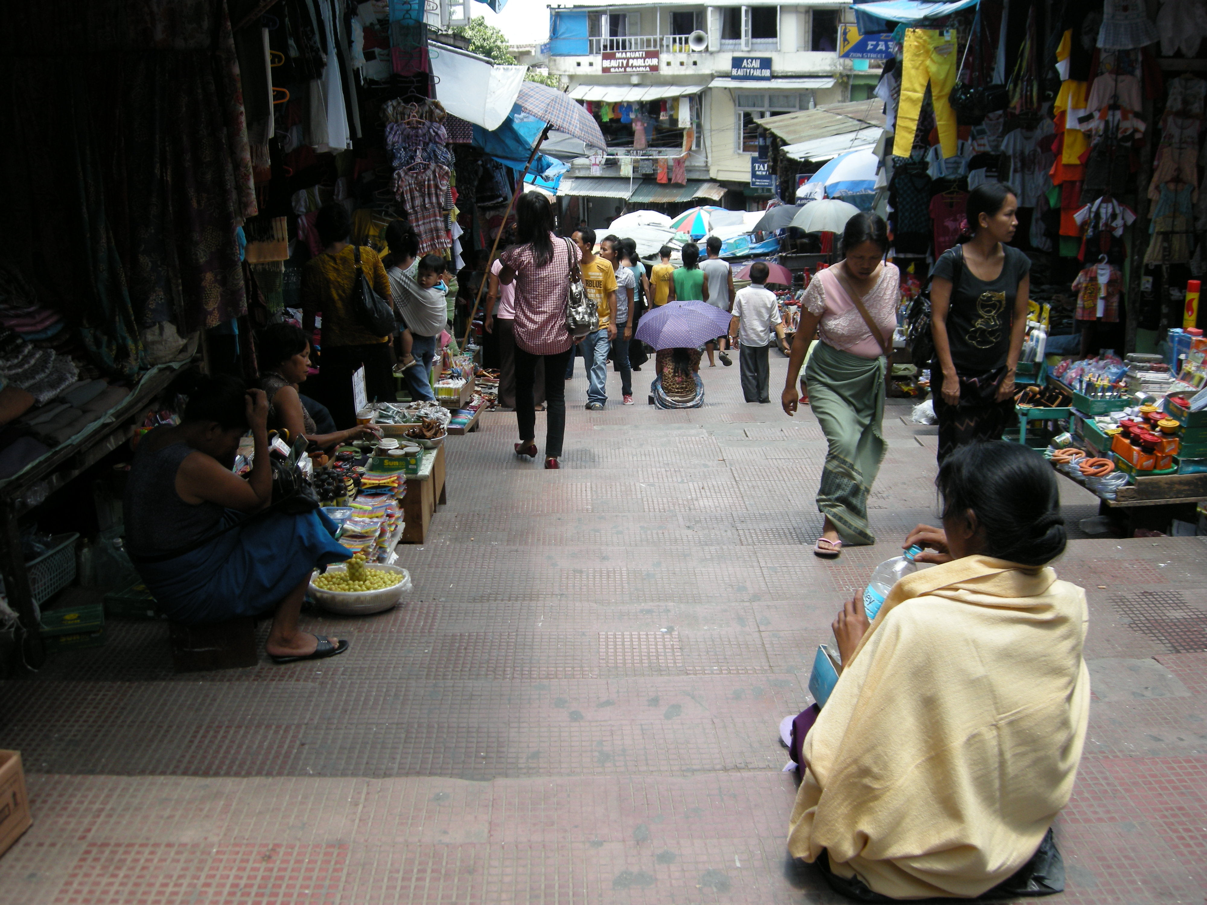 Aizawl Bazar Zion Street